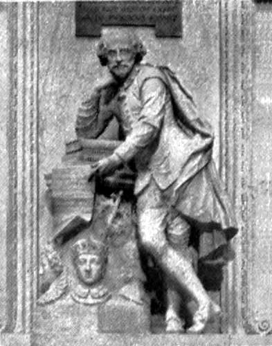 Statue of William Shakespeare by Peter Scheemakers